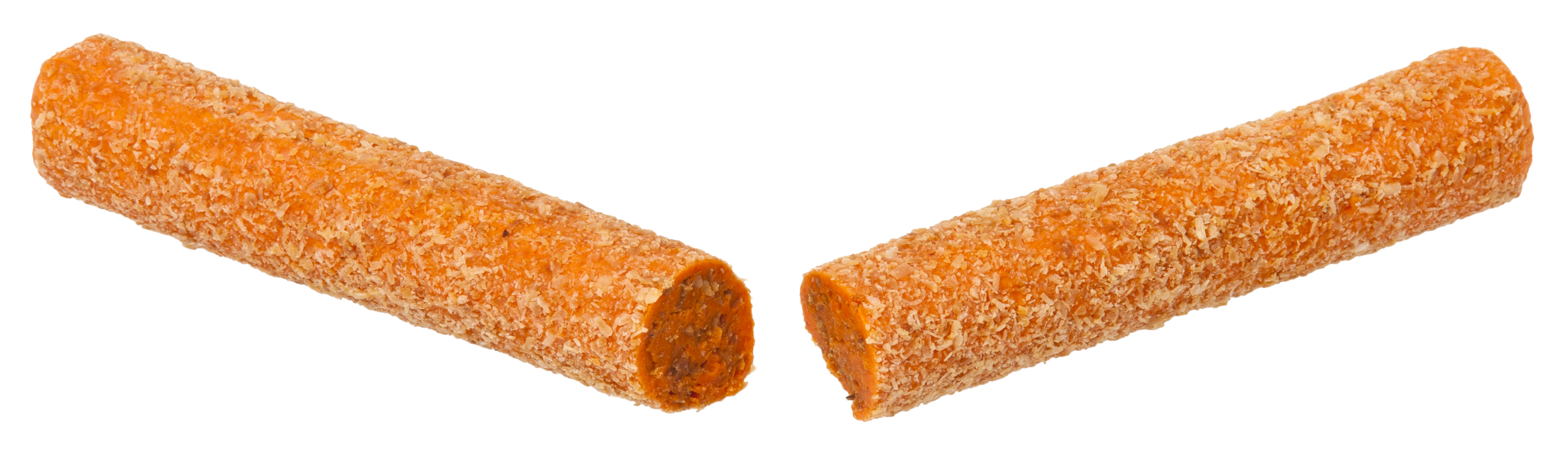 A Chick-O-Stick that has been split in half. Made by Atkinson Candy, it is a peanut butter and coconut candy.